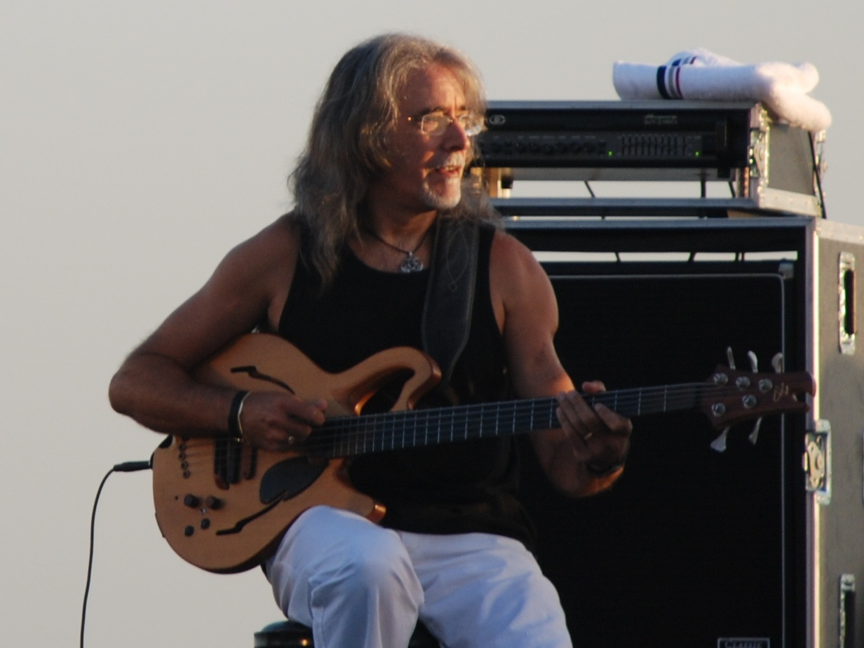 Jazz bass guitarist Carlos Benavent in Echeverria, Malaga in 2007.